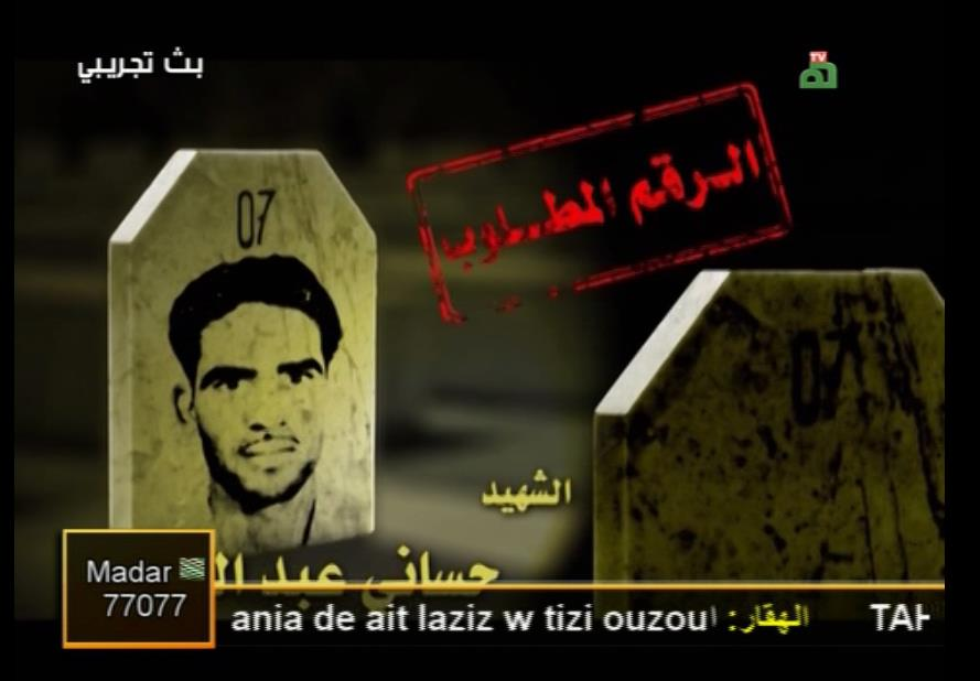 family hogar